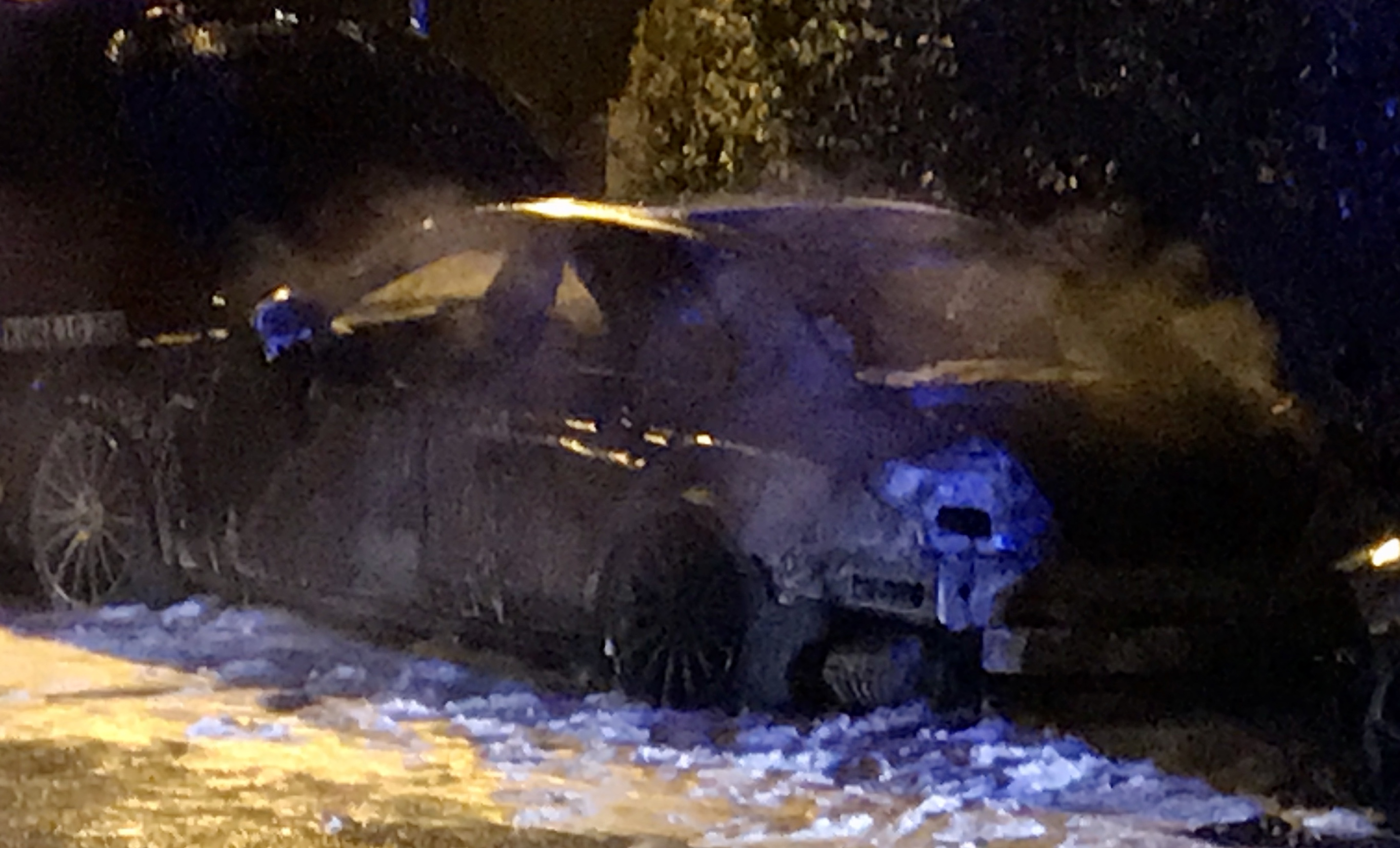 Georg Niedermeier SC Freiburg Mercedes Fire